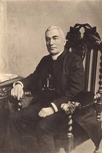 Portrait of George Thomas Stokes (1843–1898), Irish ecclesiastical historian.